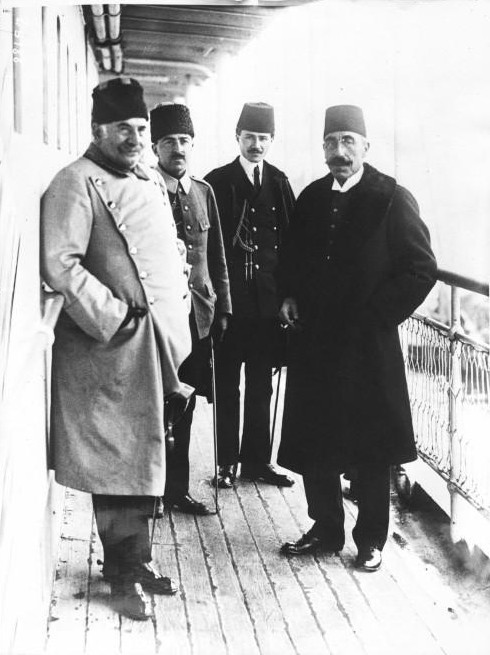 Nazim Pasha (left), Ottoman Minister of War, and Salih Pasha (right), member of the Ottoman delegation to the London Conference of 1912–1913